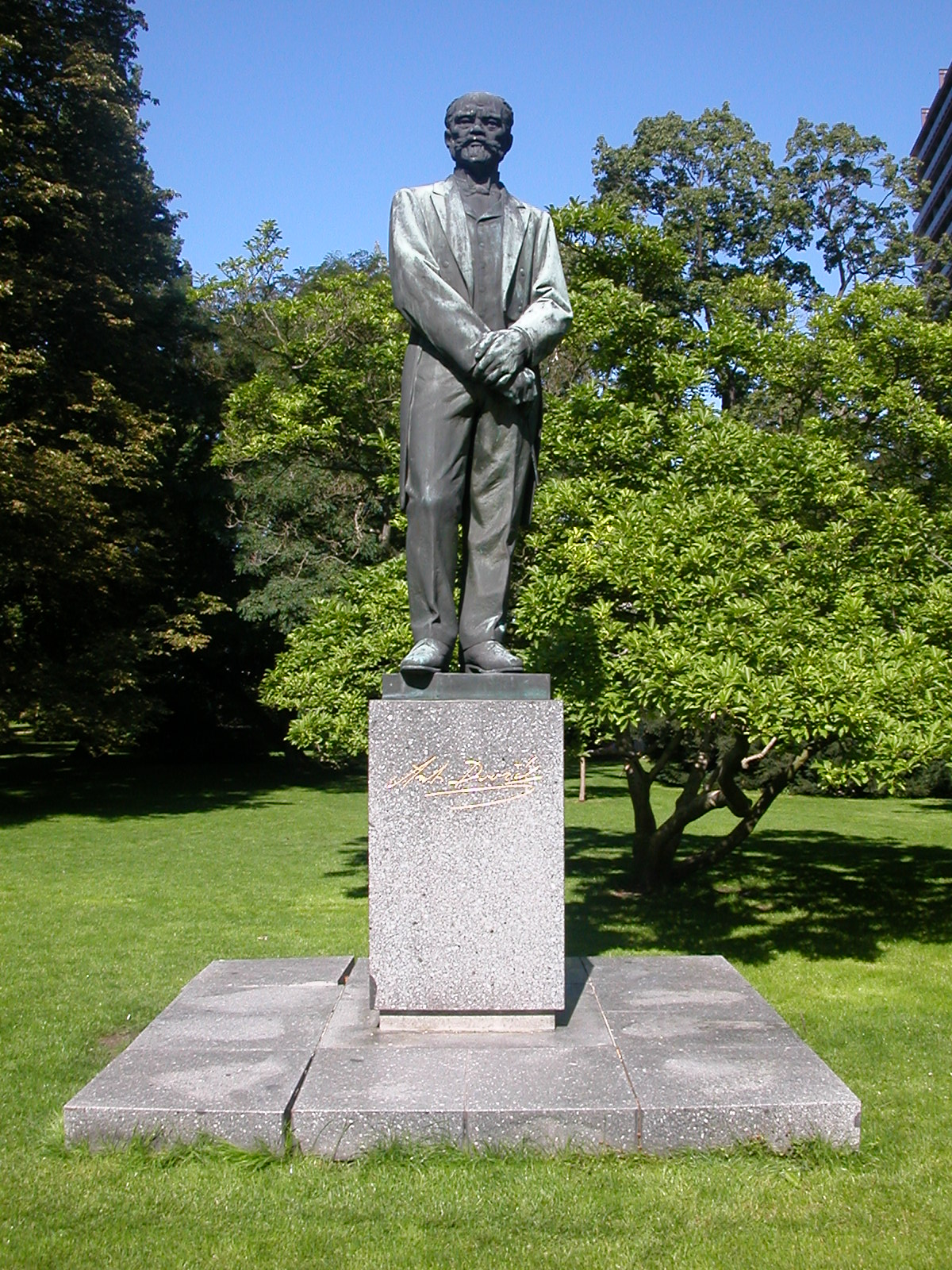 Statue of Antonín Dvořák in Karlovy Vary